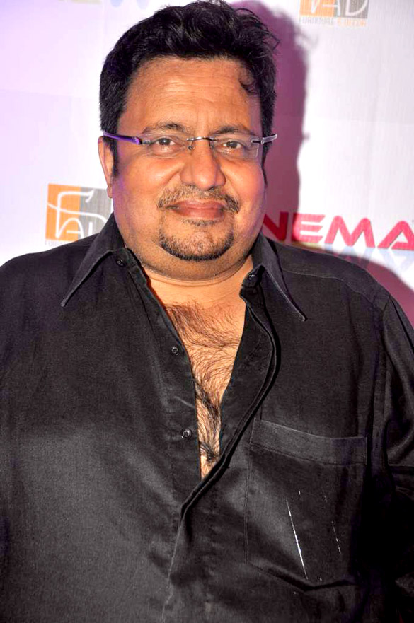 Neeraj Vora at the launch of 'Its Only Cinema' magazine